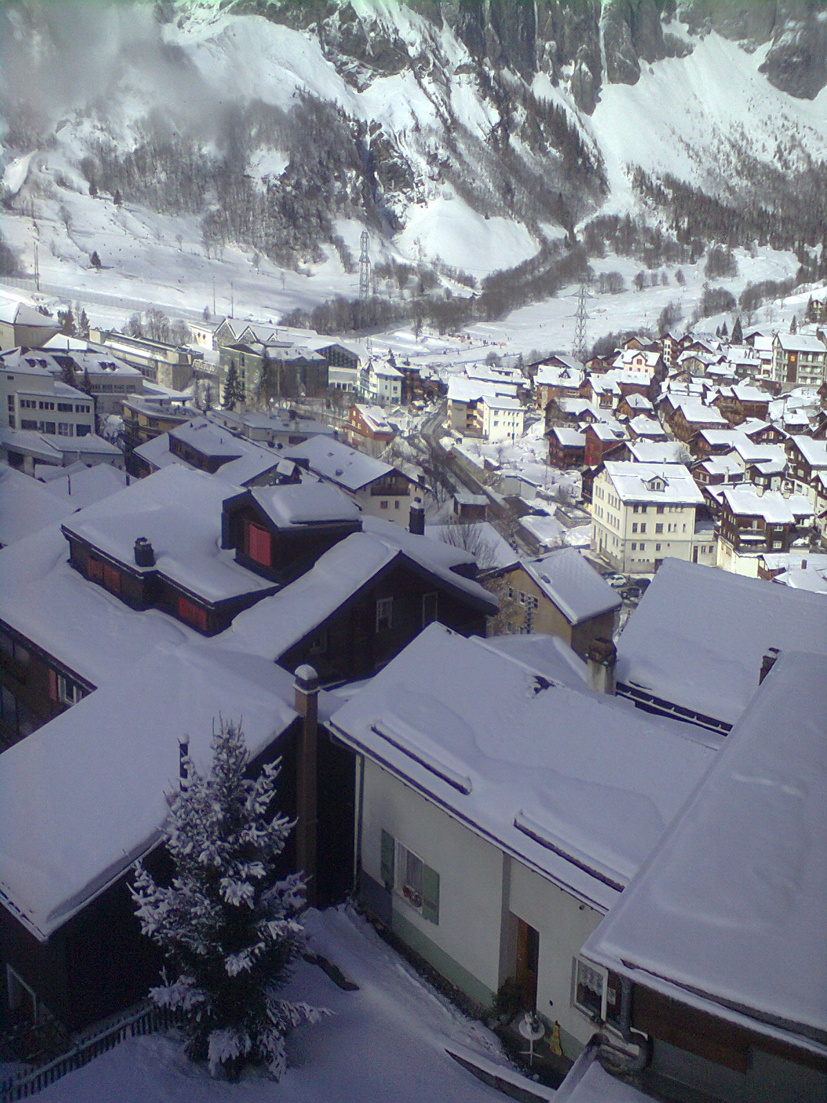 Leukerbad 220215